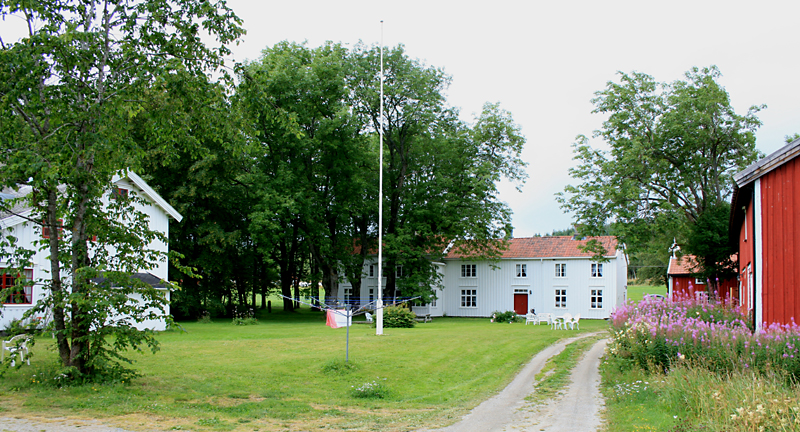 Belsvåg farm, Alstahaug, Norway. Bishop Mathias Bonsach Krogh bought it in 1812 and lived here the rest of his life.